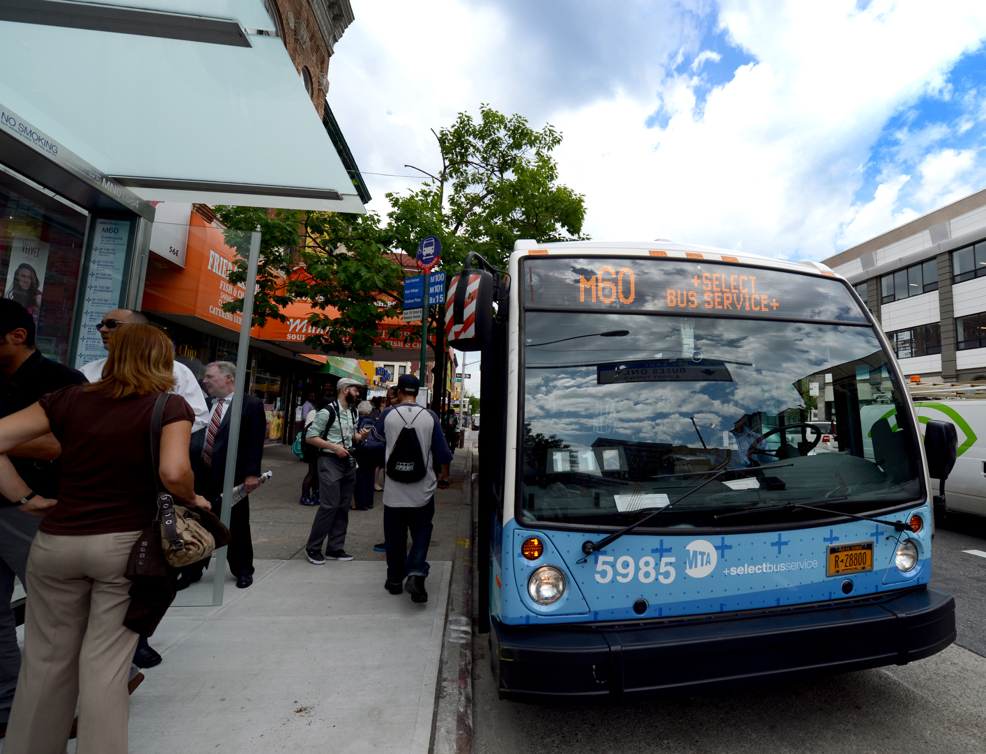 On Sun., May 25, 2014, Select Bus Service (SBS) was launched on the M60 line that travels from Harlem to LaGuardia Airport via 125th St., which was marked by a ceremony on Tue., May 27, 2014. Photo: Marc A. Hermann / MTA New York City Transit